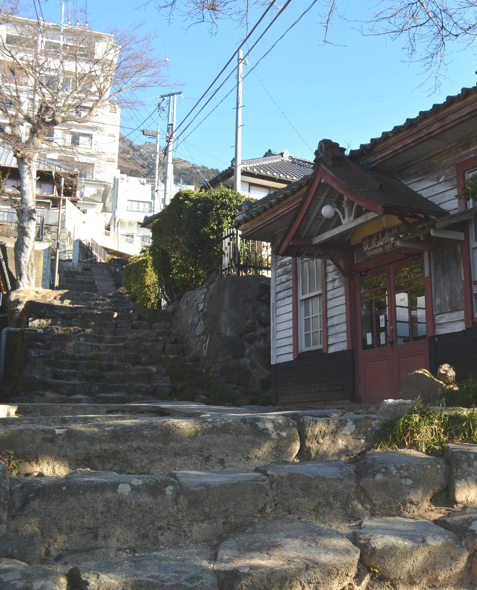 Rokucyo stairway,Tsukuba city,Japan